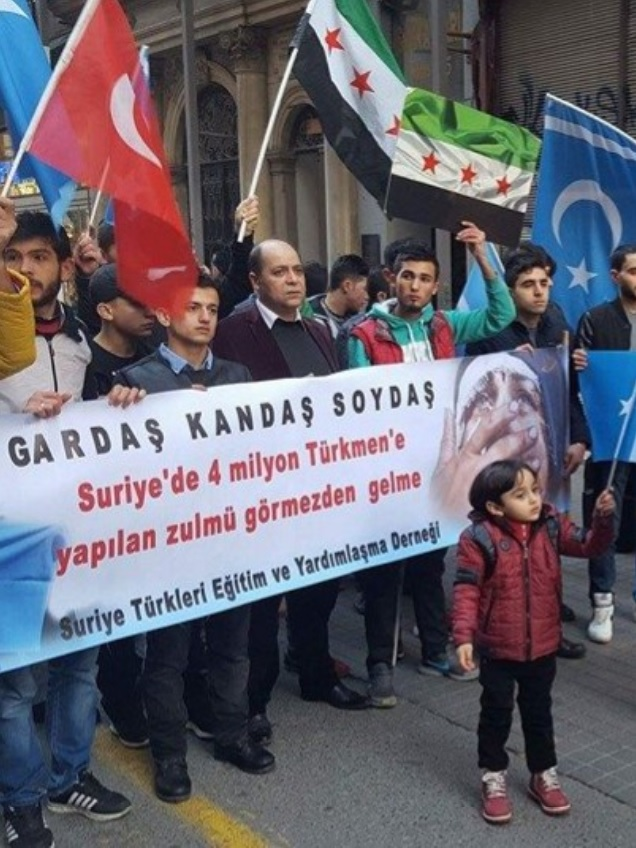 Syrian Turkmen protest in Istanbul (placard reads: Do not ignore the persecution of the 4 million Turkmen in Syria)